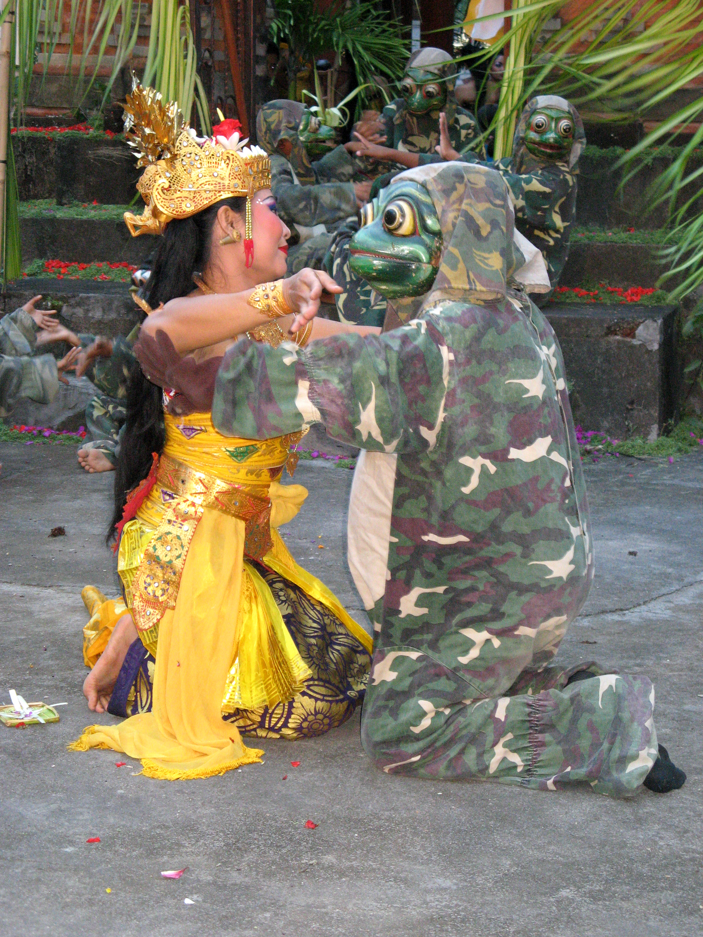 At the end of the dance, as in any good fairy tale, the frog kisses the princess.